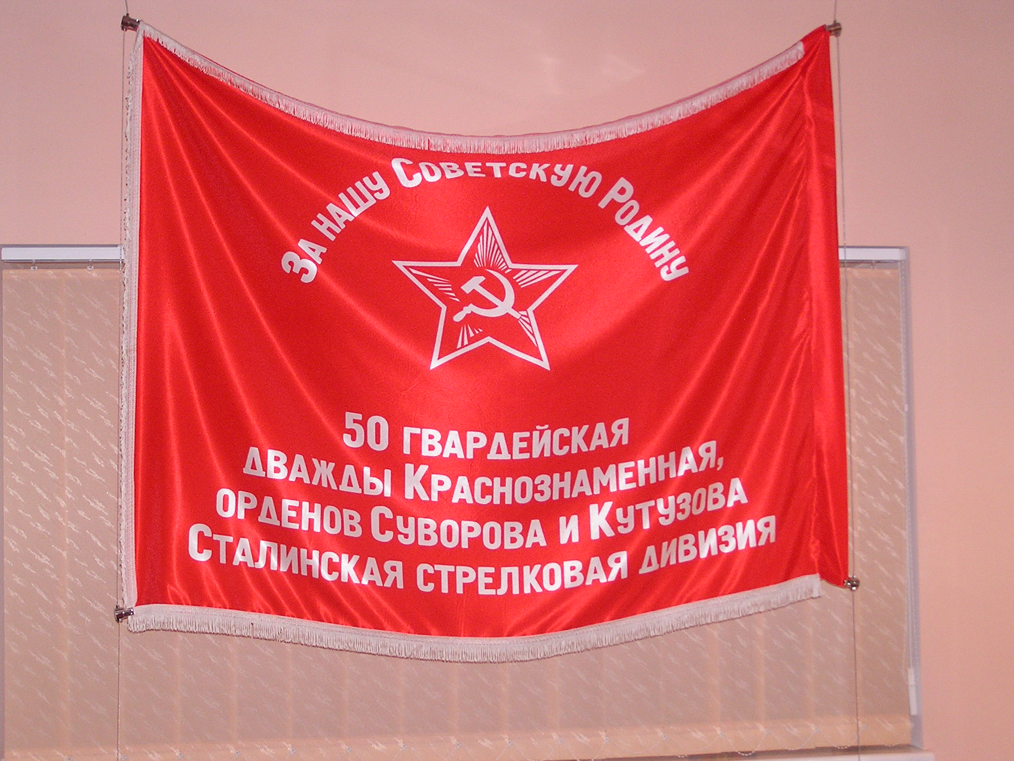 Museum of the History of Donetsk militsiya - Banner of the 50th Infantry Guards Division (WW II)